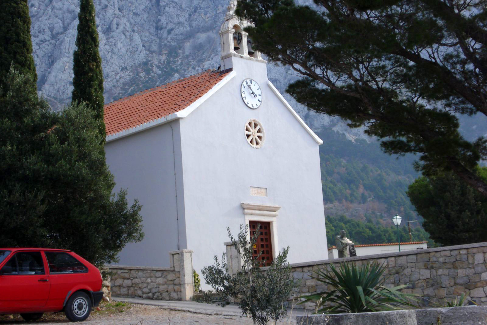 Veliko Brdo, a suburb of Makarska. The church of Saint Jerome.